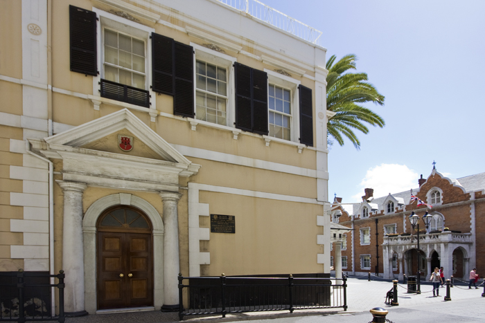 View of Convent Place, Gibraltar depicting the Government offices at No. 6 in the foreground and The Convent (the Governor's residence) in the background.